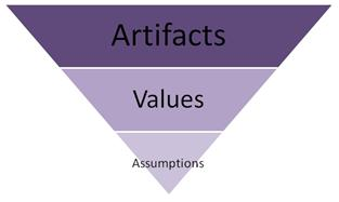 Diagram of Schein's Organizational Behavior Model